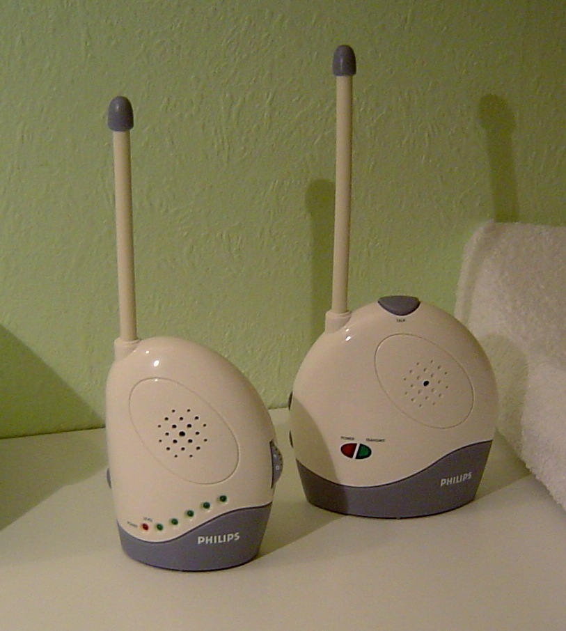 A baby monitor, a radio system to allow a caregiver to remotely listen to the sounds an infant makes. The transmitter unit (right), which has a microphone in it, is placed near the baby's crib. It transmits the sounds the baby makes to the receiver unit (left) equipped with a speaker. This is my own system.